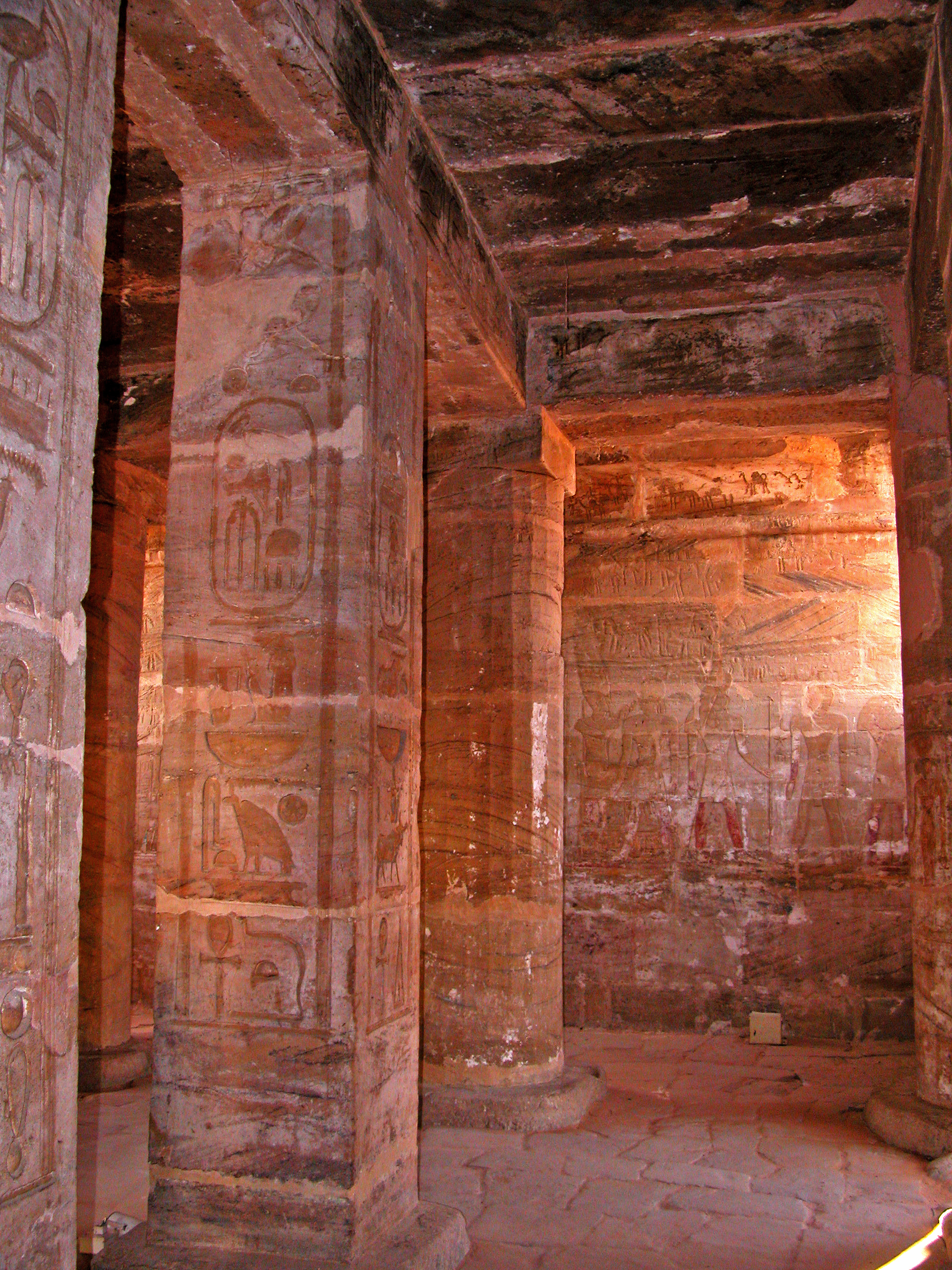 The Temple of Amada in Nubia was one of the oldest Egyptian temples in Nubia. It was built and decorated by three New Kingdom pharaohs: Thutmose III, Amenhotep II and Thutmose IV respectively.